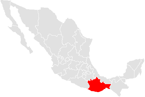 A map of the Mexican state of oaxaca made by me